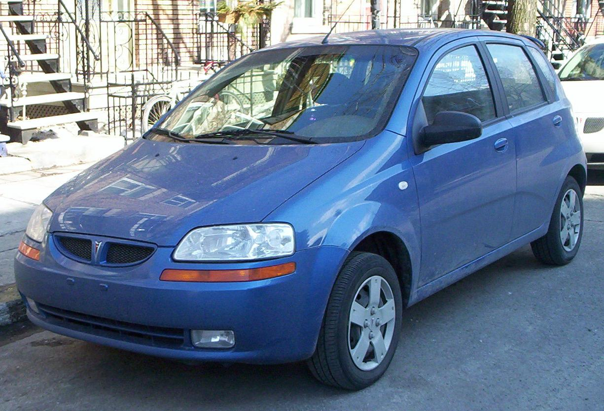 2004-present Pontiac Wave hatchback photographed in Montreal, Quebec, Canada